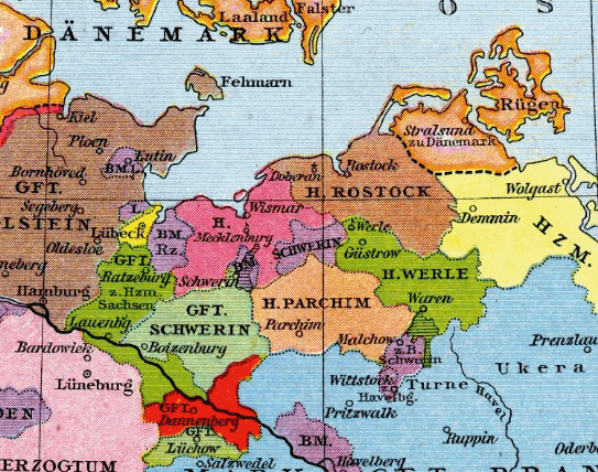 Map of the states of the Holy Roman Empire circa 1230, cropped to highlight Mecklenburg.